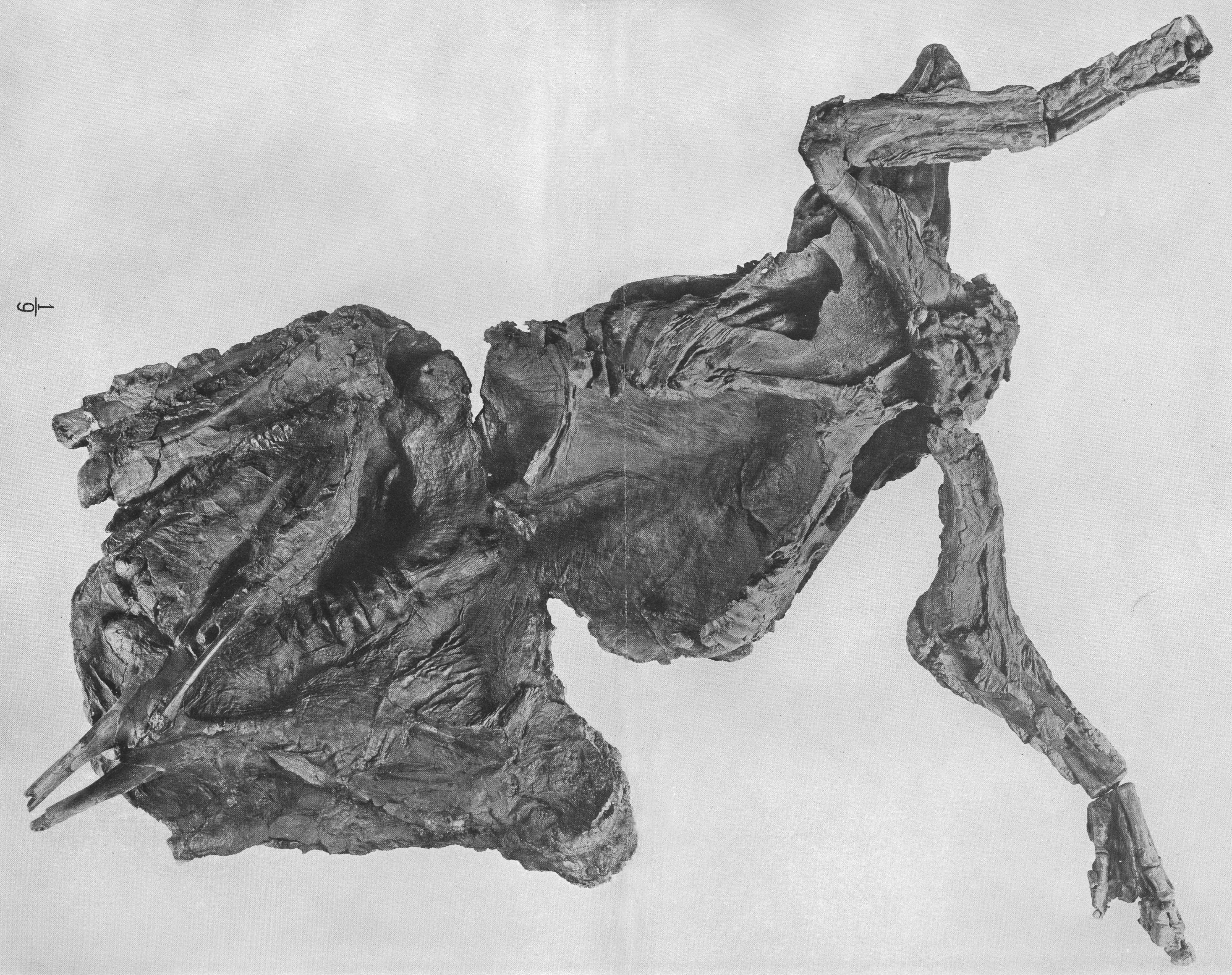 Ventral view of Edmontosaurus annectens mummy.